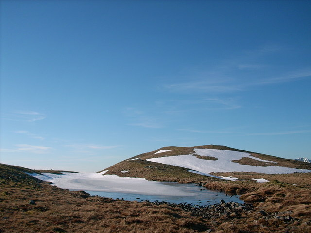 Lochan with summit of Beinn Mhic Mhonaidh behind The lochan is in the square, the summit is in the next square